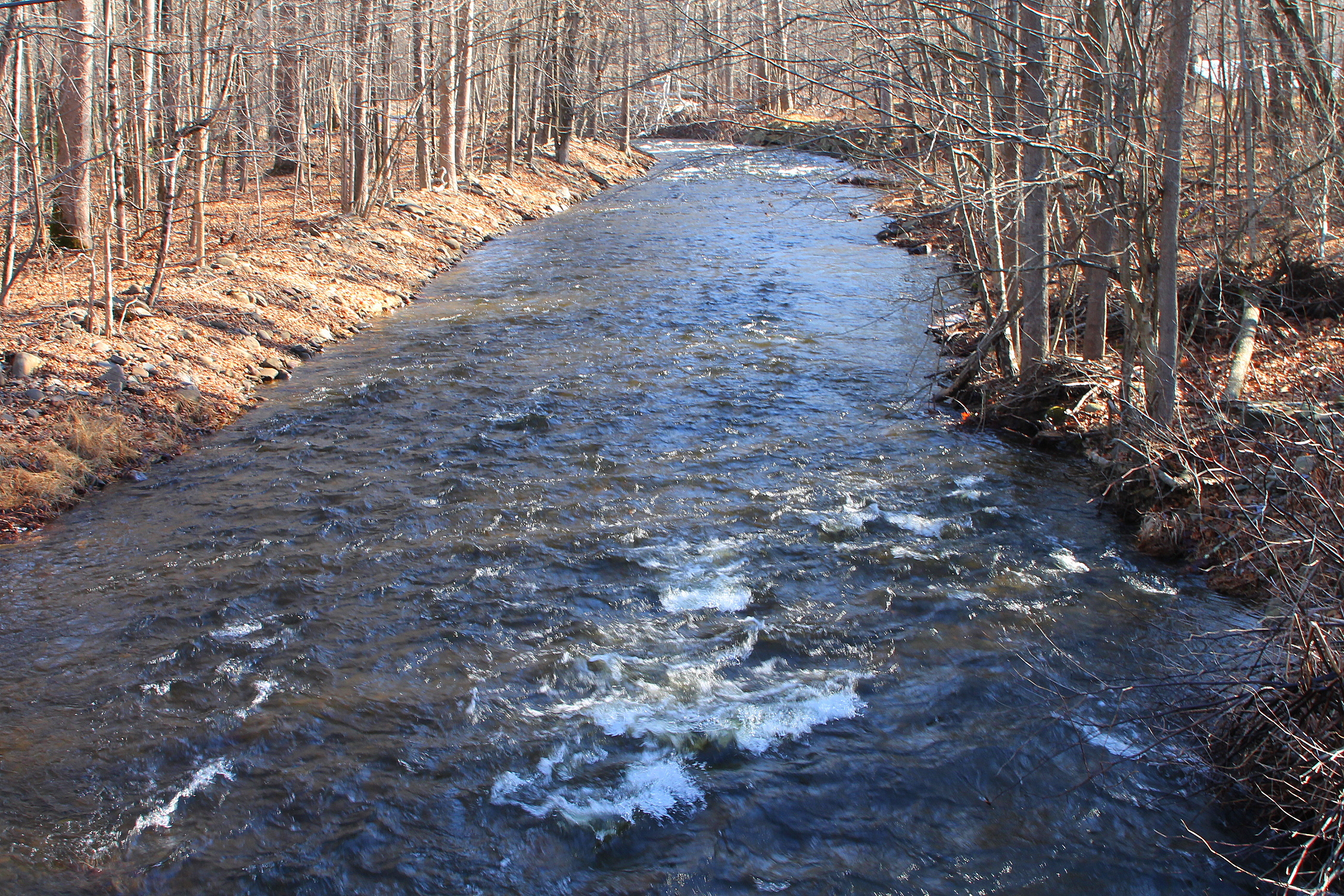 Kitchen Creek looking downstream in its lower reaches